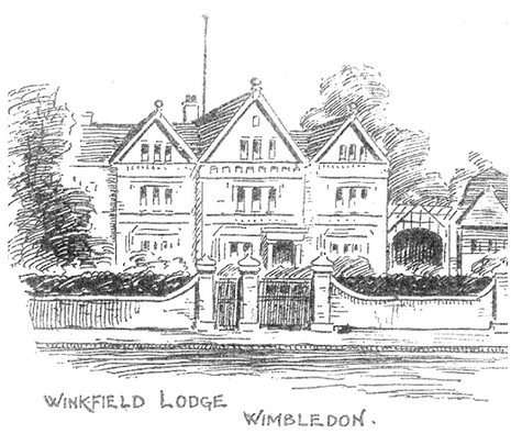 Winkfield Lodge, Wimbledon, c. 1917.